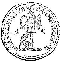 738 woodcuts illustrating the work A Dictionary of Roman Coins, Republican and Imperial (1889). To identify a coin please look at the filename to identify a page number, and check the Dictionary on numiswiki